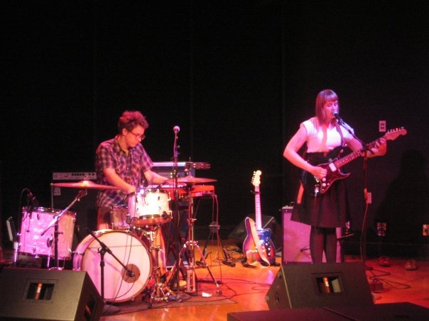 Wye Oak performing in 2008